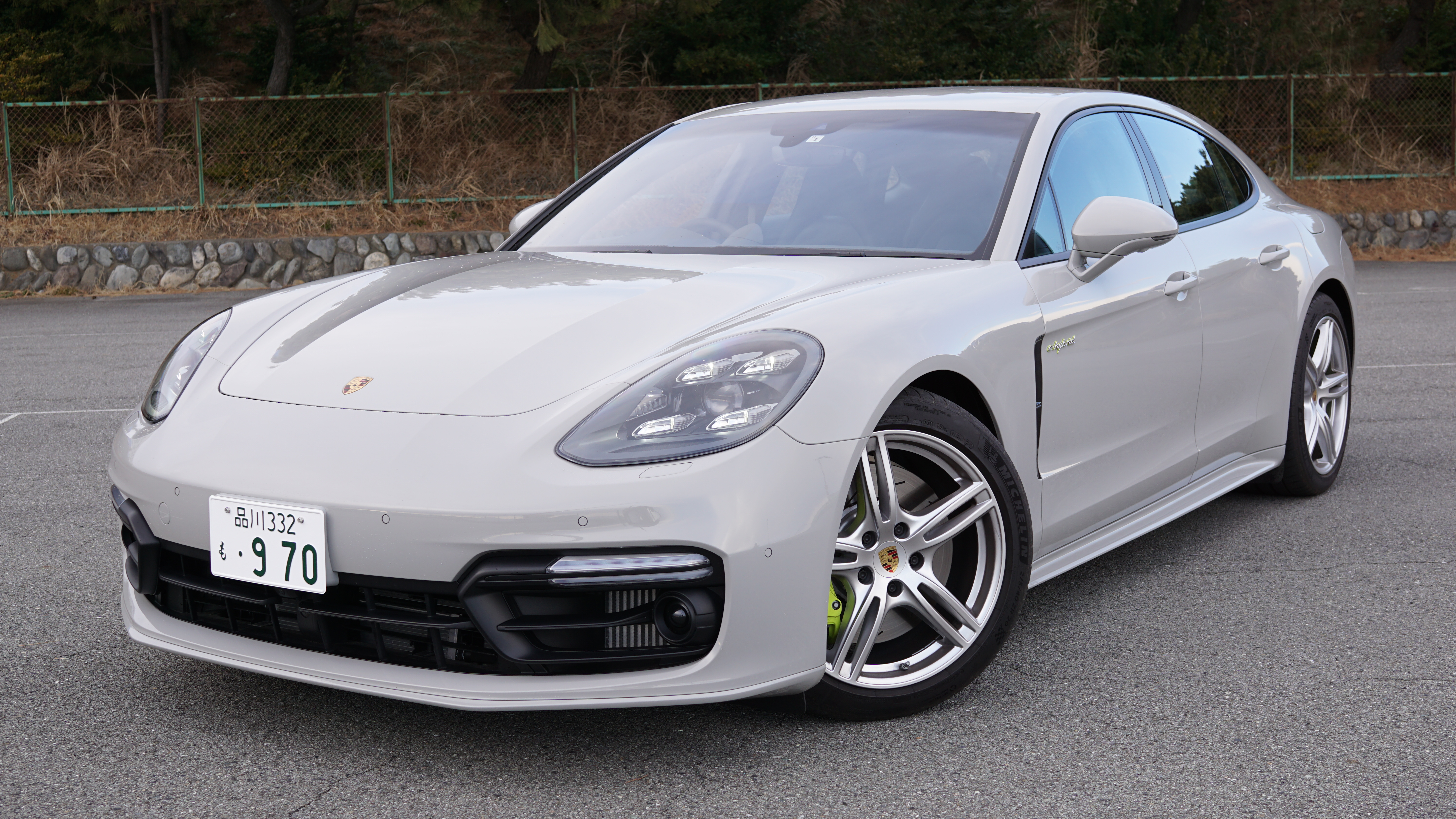 Front view of the Porsche Panamera 4 E-Hybrid 97ABE1.